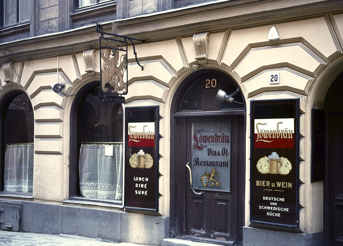 FOTOGRAFIJakobsgatan 20. Entré till restaurang Löwenbräu. 1963-1963FOTOGRAF: Bohman, Gösta.BILDNUMMER: Dia 6068Stadsmuseet i Stockholm